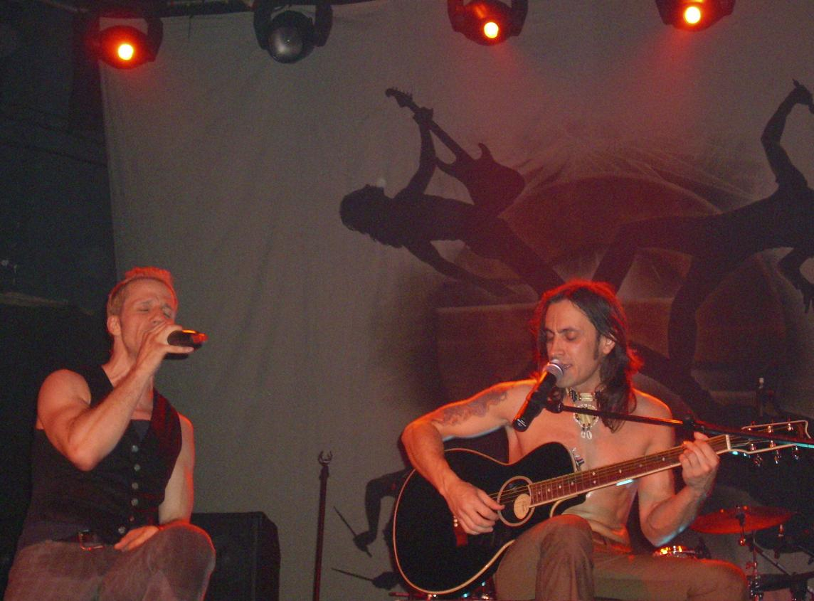 Sala La Riviera Madrid , 31 October 2008 Gary Cherone and Nino Bettencourt.